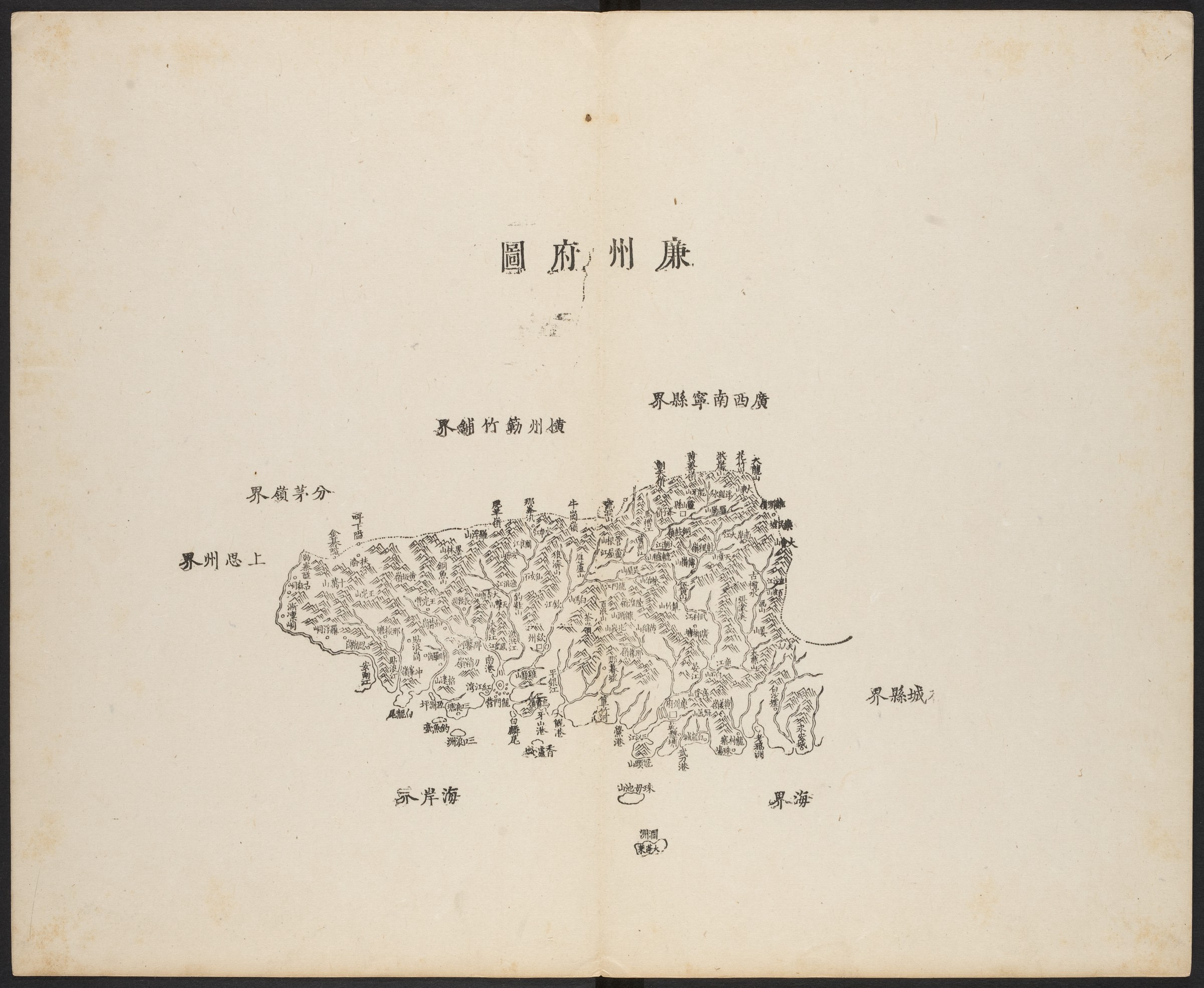 One of the maps of provinces and prefectures in Imperial Household Department, the map of Limchow Prefecture. Made between 1662 and 1722. 中文（香港）: 康熙内府分省分府圖的其中一張，廉州府圖，成圖年代公元1662-1722。